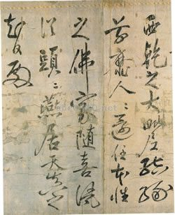 Letter soliciting donations for the restoration of Sennyū-ji temple (泉涌寺勧縁疏, Sennyū-ji kanenso). one scroll, ink on paper, 40.6 cm × 296.0 cm (16.0 in × 116.5 in). Located at Sennyū-ji, Kyoto. The item has been designated as National Treasure of Japan in the category ancient documents.